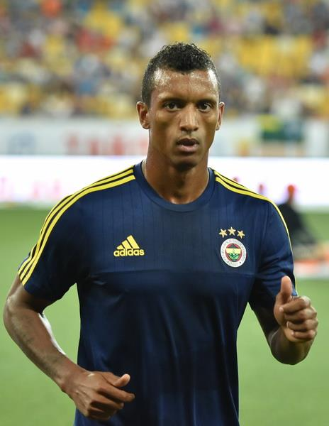 Shakhtar Donetsk - Fenerbahçe 05 August 2015 Champions League Third qualifying round